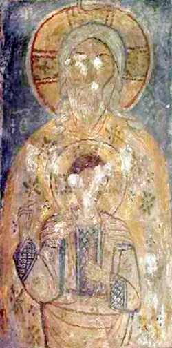 Holy Trinity from Densus. Jesus is dressed in traditional Romanian clothes